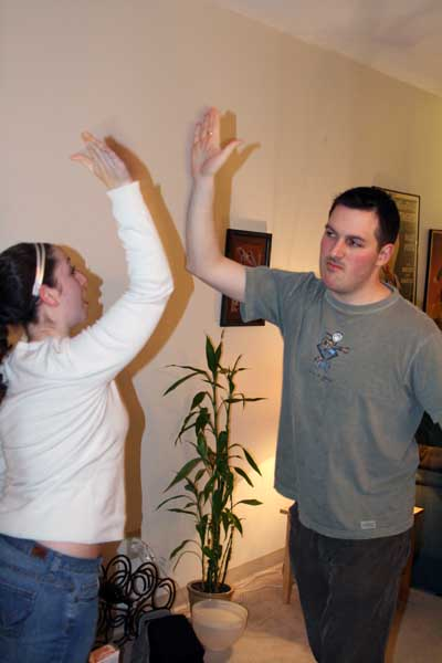 A woman and a man performing a high five.